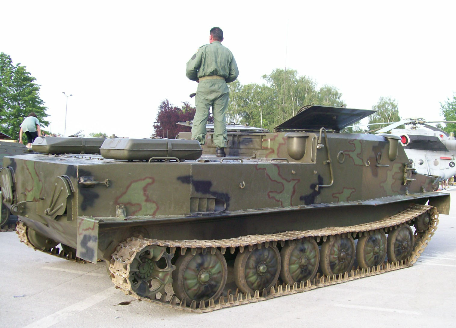 BTR-50PK of the Croatian ArmyHrvatski: BTR-50P Amfibija Hrvatske vojske